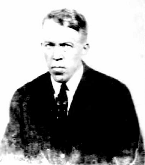 Fred Norcross